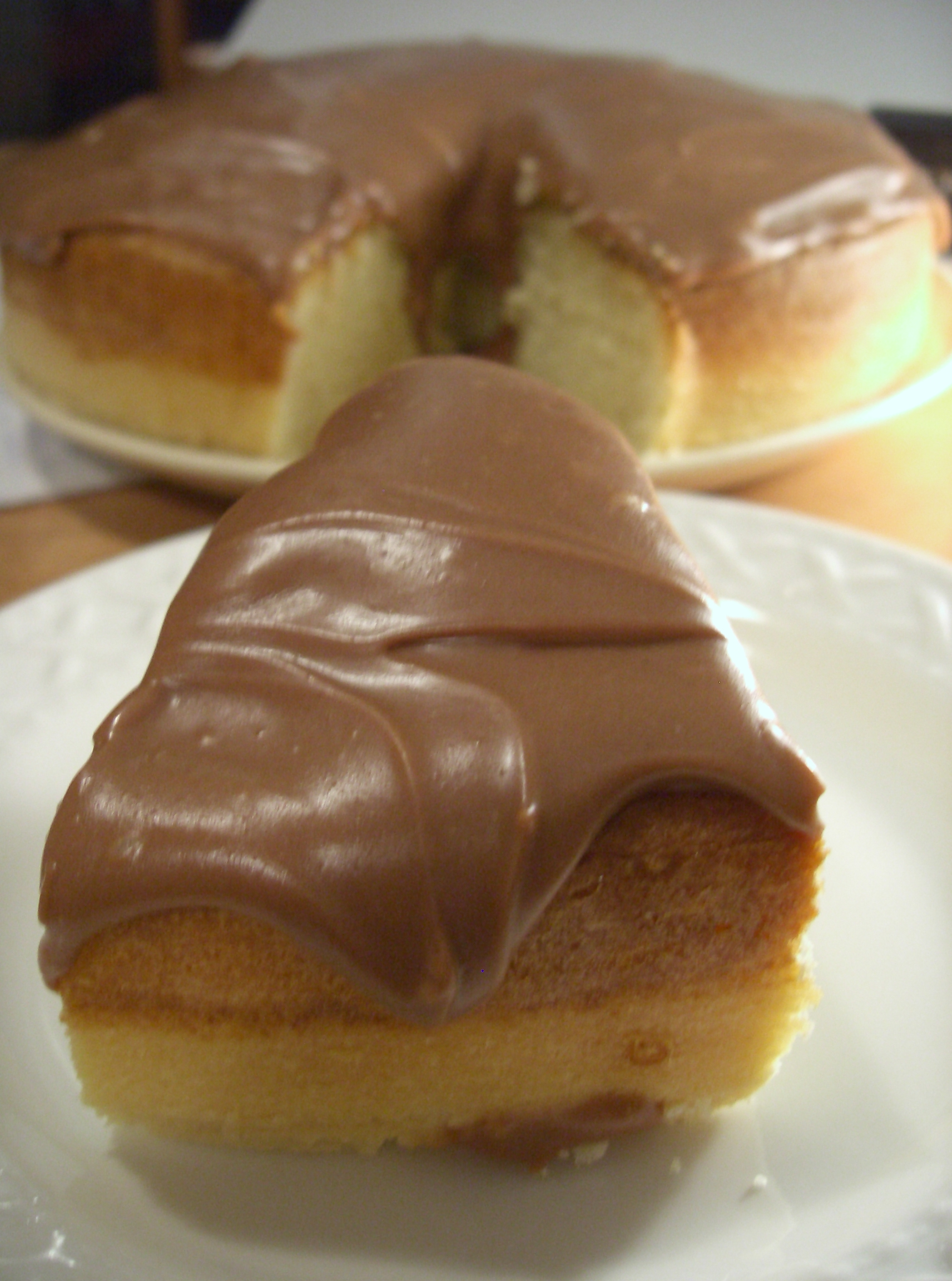 Cookbook:1-2-3-4 Cake with Cookbook:Chocolate Sour-Cream Icing.